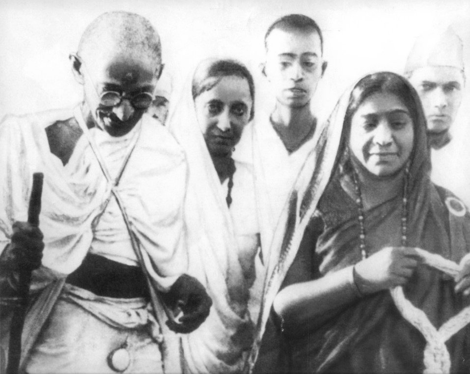 Mahatma Gandhi, Mithuben Petit and Sarojini Naidu during the Salt Satyagraha of 1930